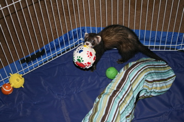 Chocochip